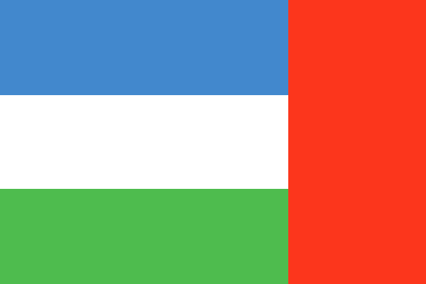 Flag of the province of Luya